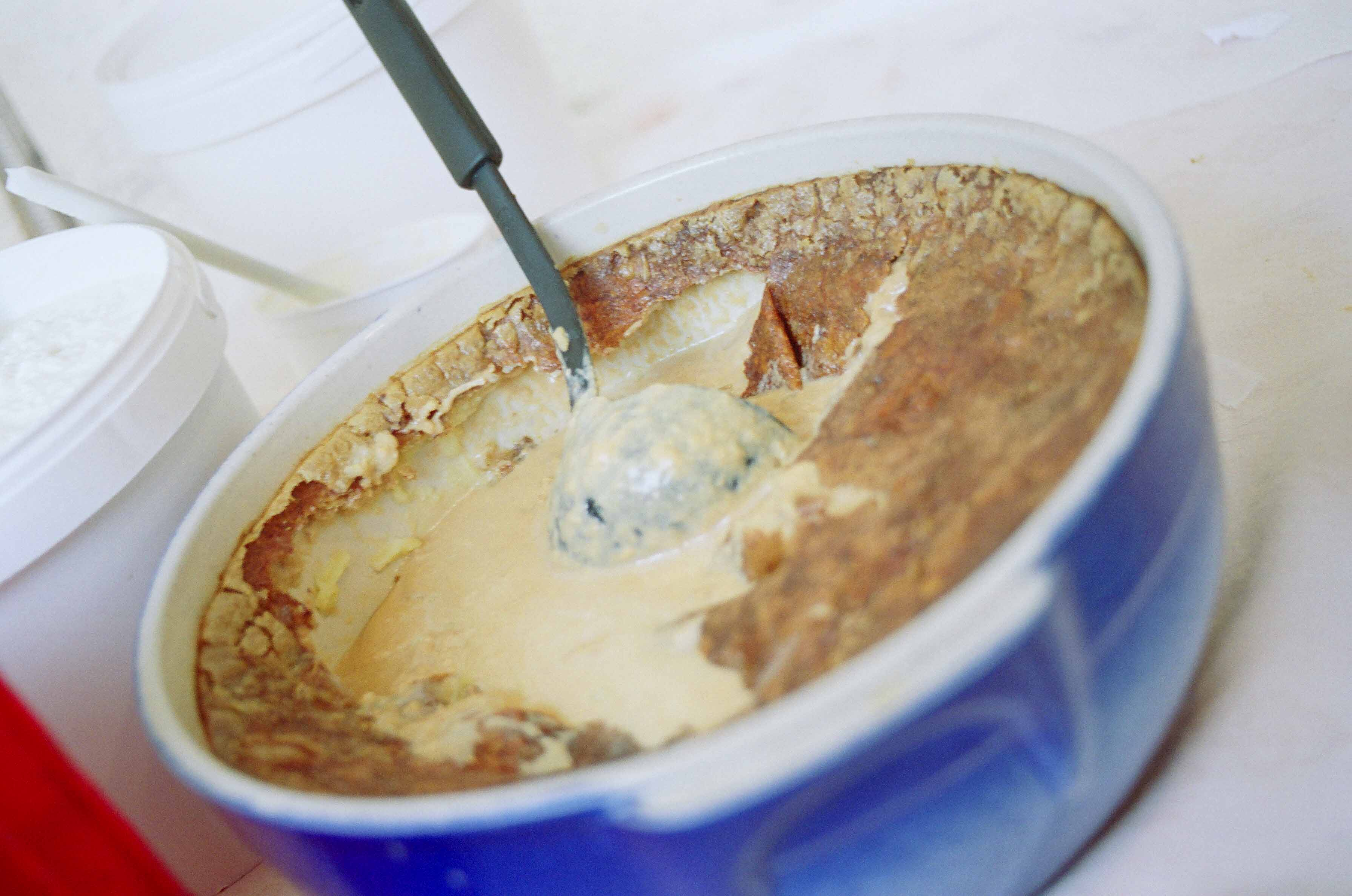 teurgoule taken in caen (france) market on a sunday morning